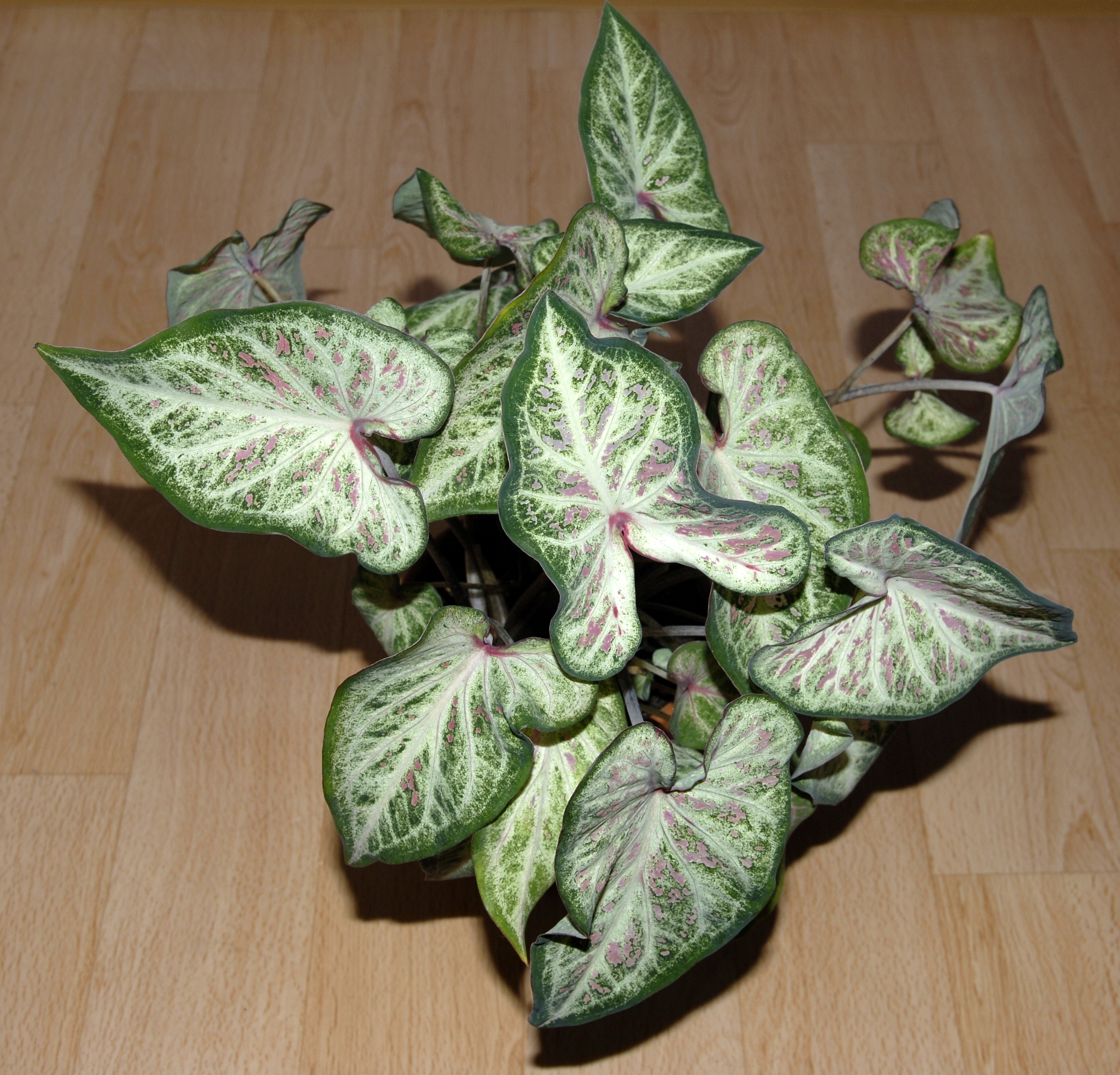 Caladium bicolor 'Candyland'